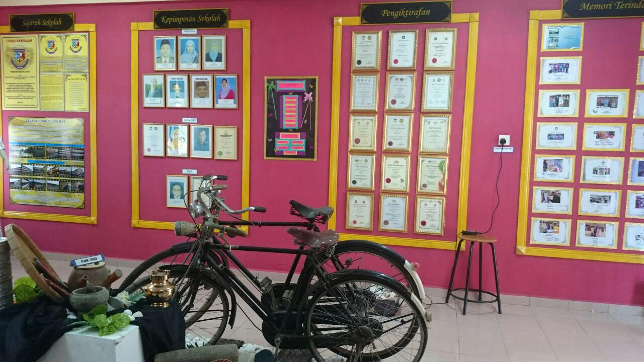 basikal tua malay tradition